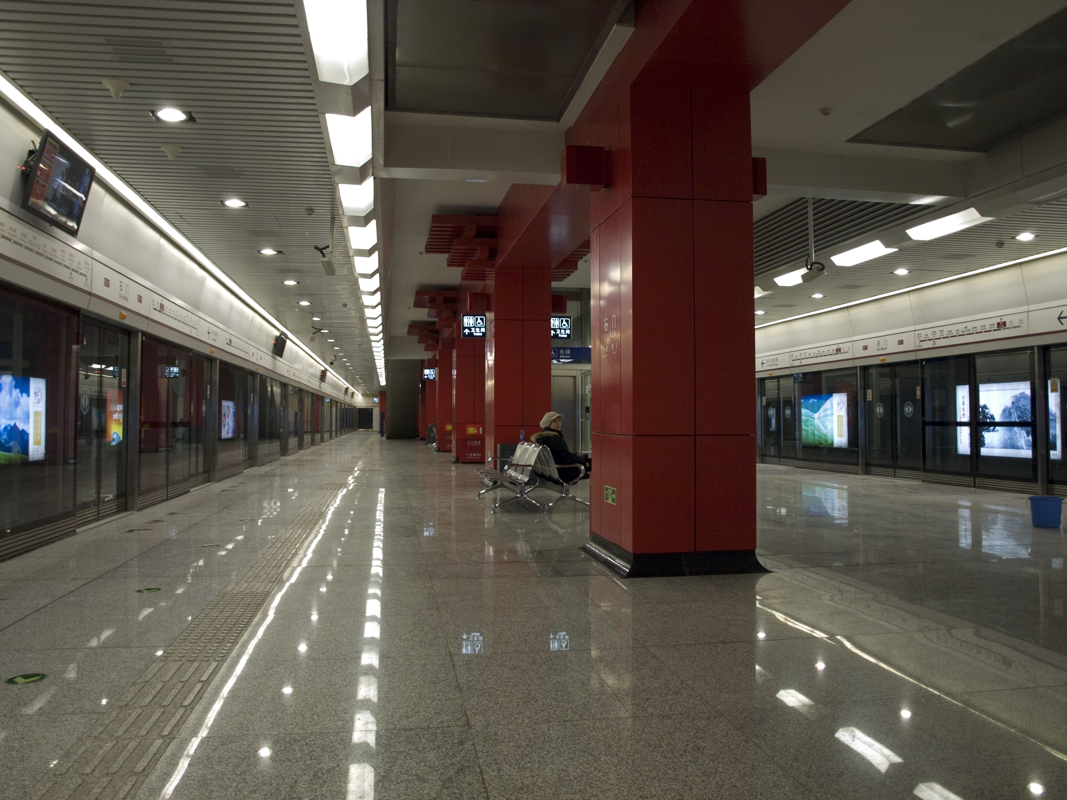 Shimen station, Beijing Subway